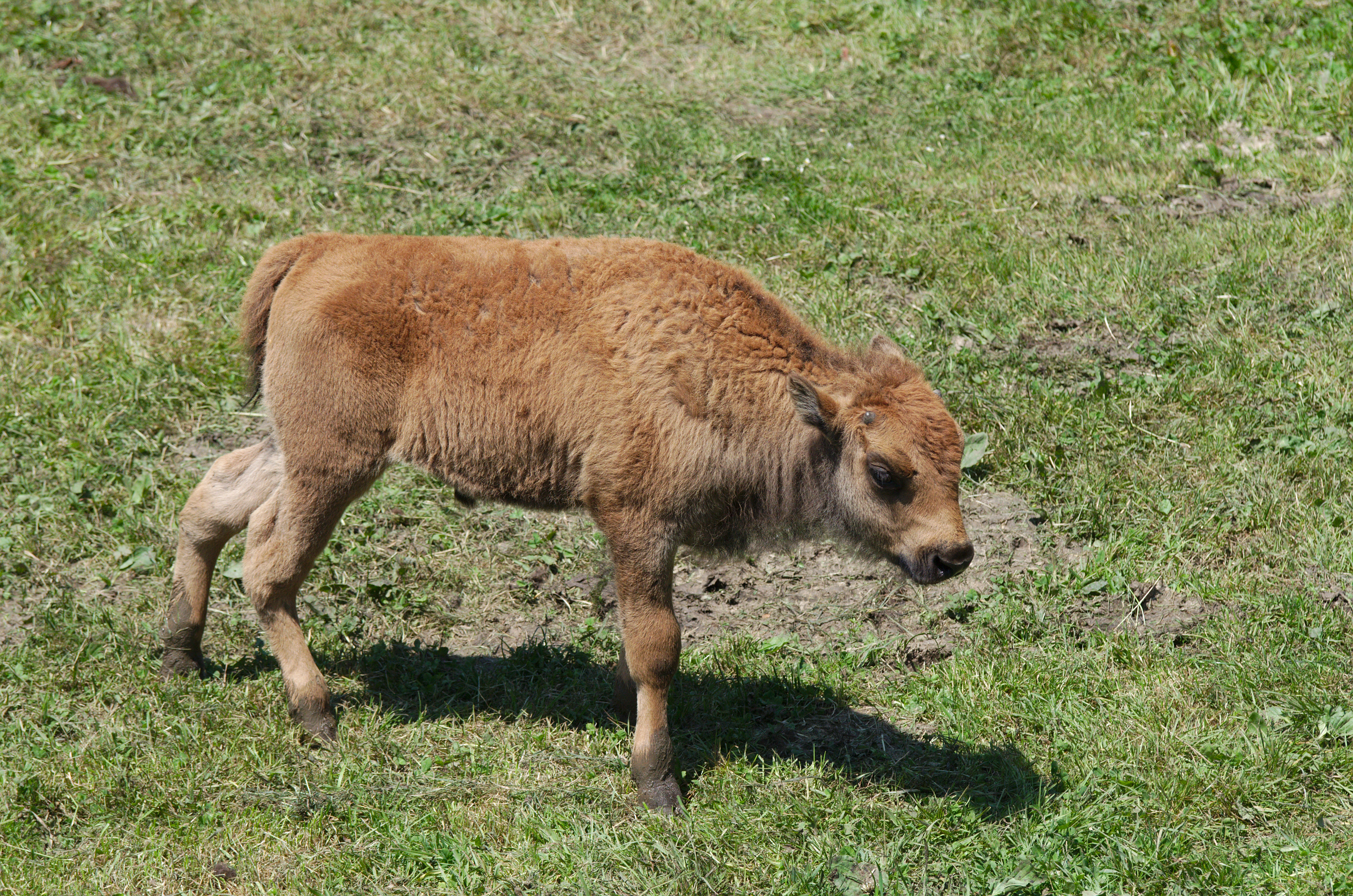 Buffalo calf at Juraparc on 06/07/2013